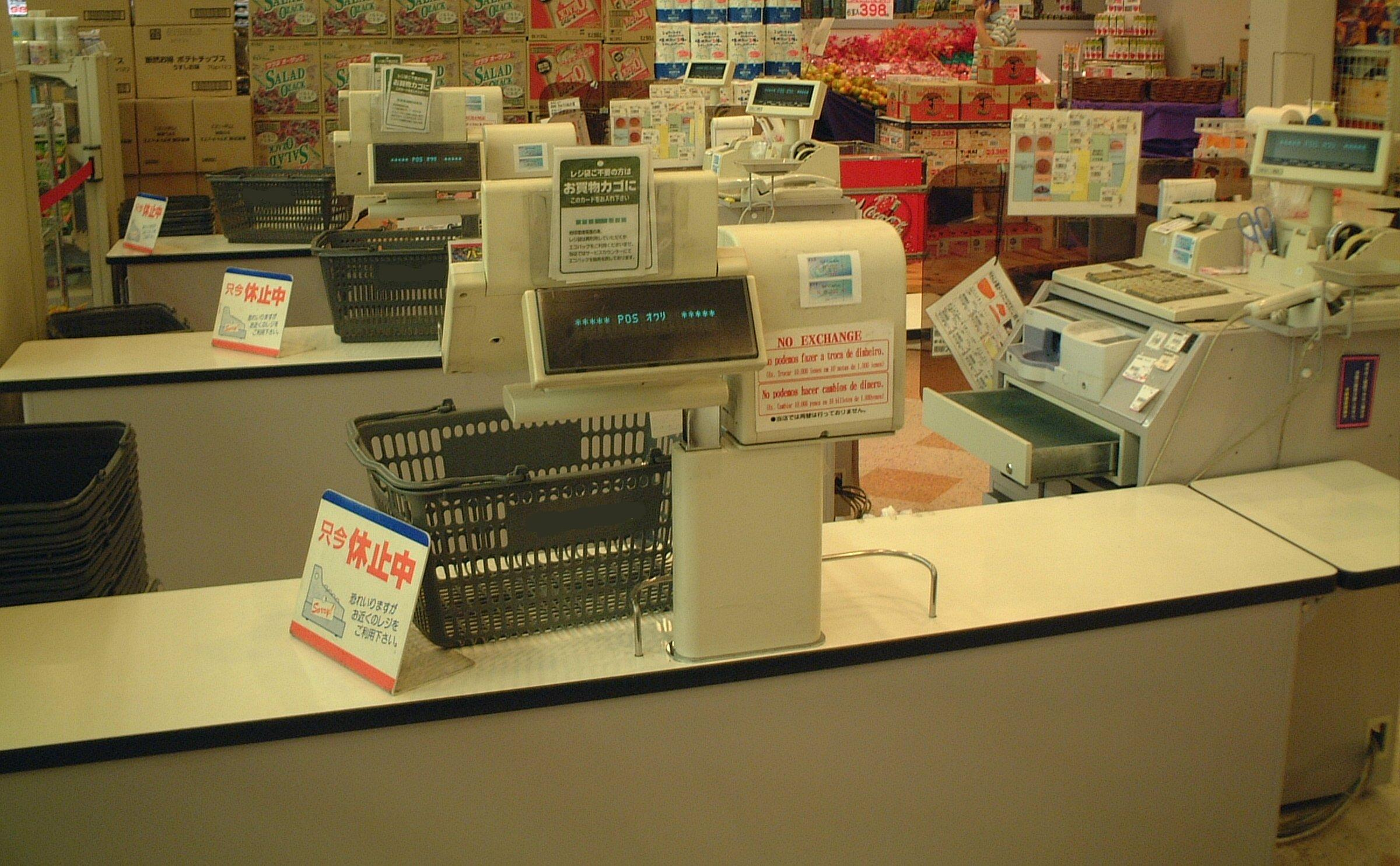 Cash register in Japan